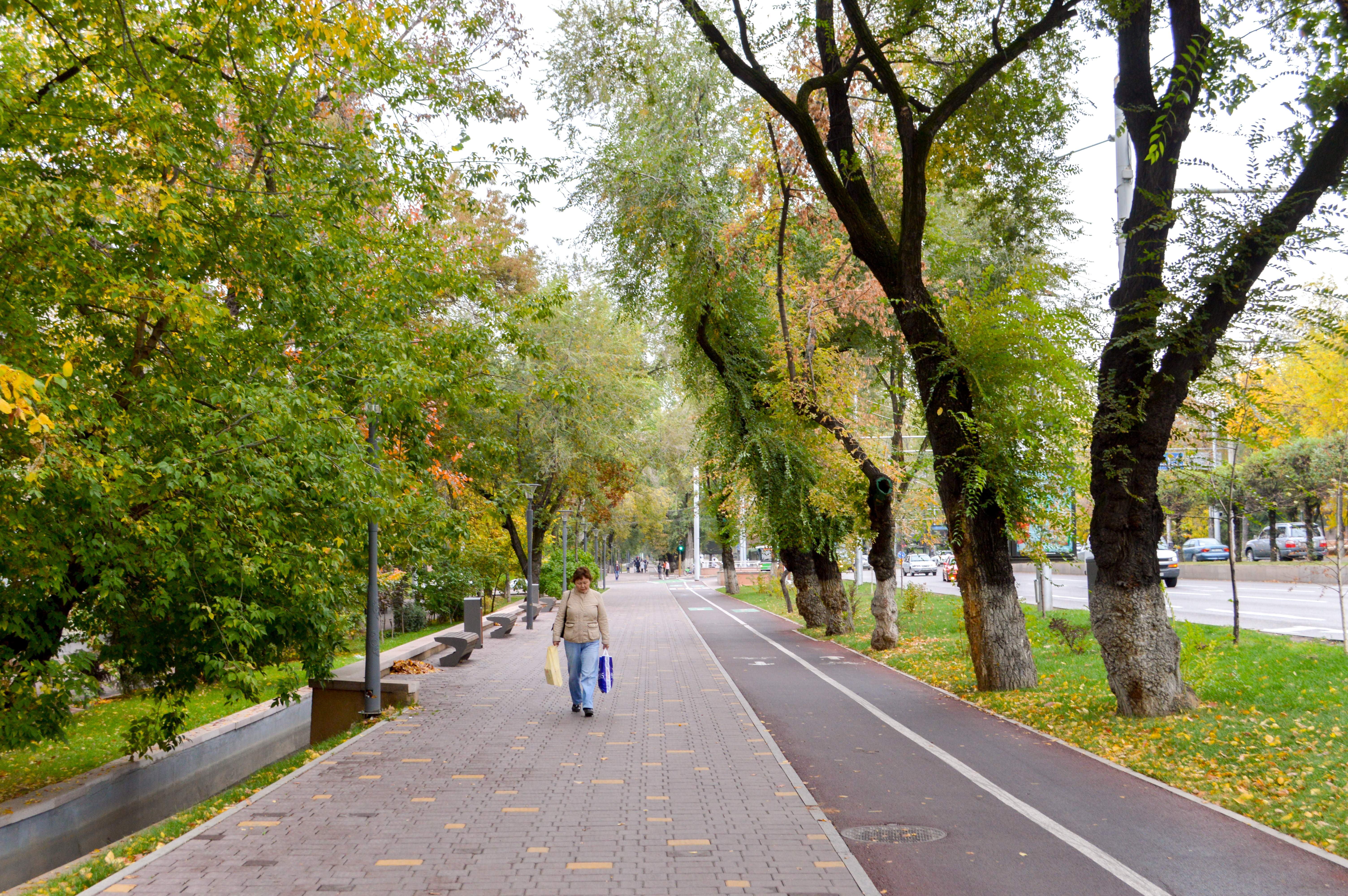 Photo of a sidewalk and a bike lane in Almaty.